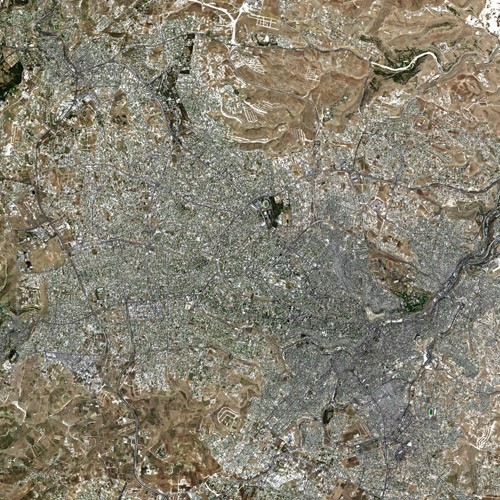 Amman by SPOT Satellite